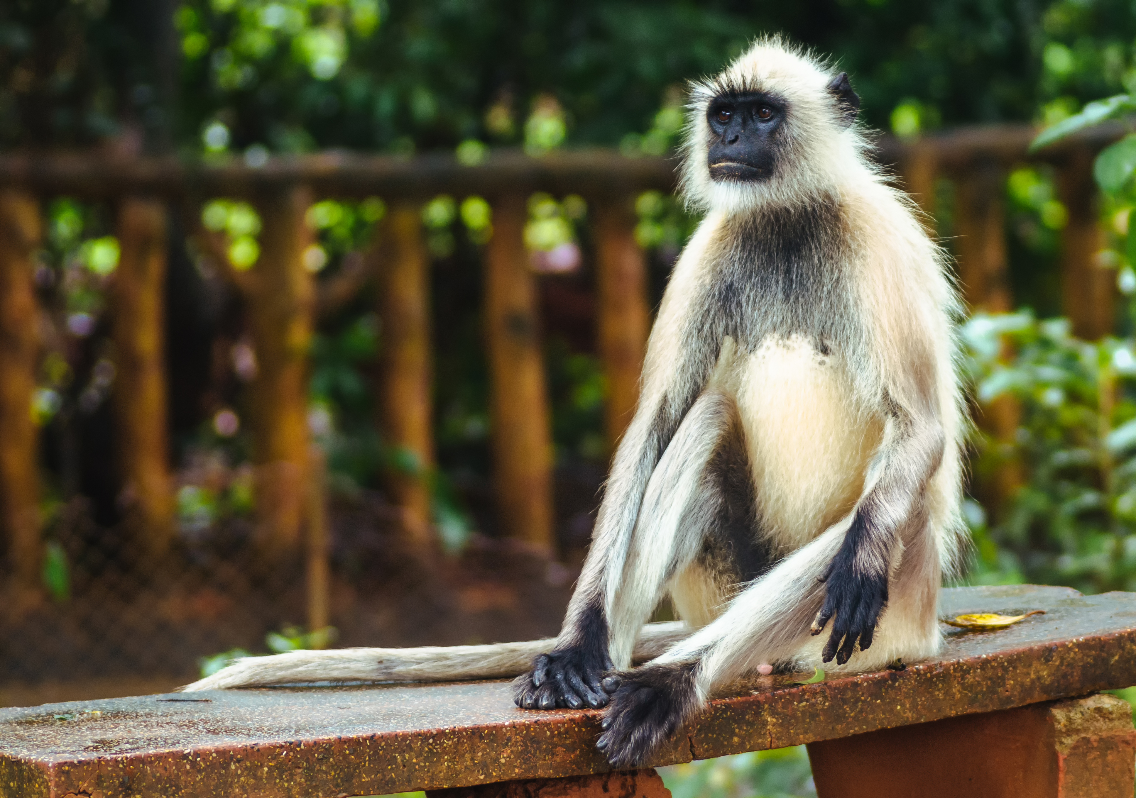 Gray langurs or Hanuman langurs, the most widespread langurs of the Indian Subcontinent, are a group of Old World monkeys constituting the entirety of the genus Semnopithecus. All taxa have traditionally been placed in the single species Semnopithecus entellus. In 2001, it was recommended that several distinctive former subspecies should be given species status, so that seven species are recognized. A taxonomic classification with fewer species has also been proposed. Genetic evidence suggests that the Nilgiri langur and purple-faced langur, which usually are placed in the genus Trachypithecus, actually belong in Semnopithecus.